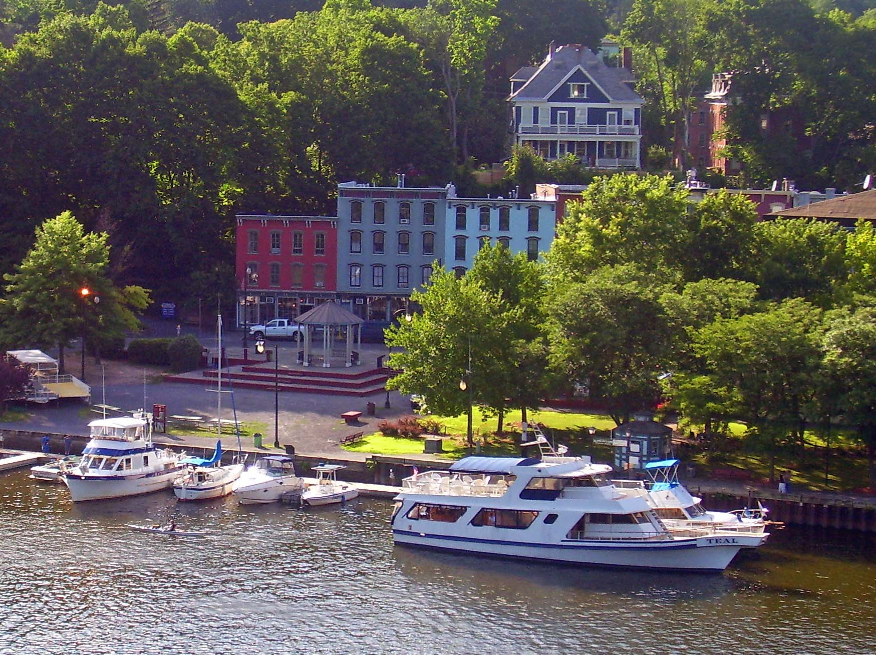 Waterfront area of Kingston, NY, USA, along Rondout Creek, part of the Rondout-West Strand Historic District, photographed from the John T. Loughran Bridge on US 9W